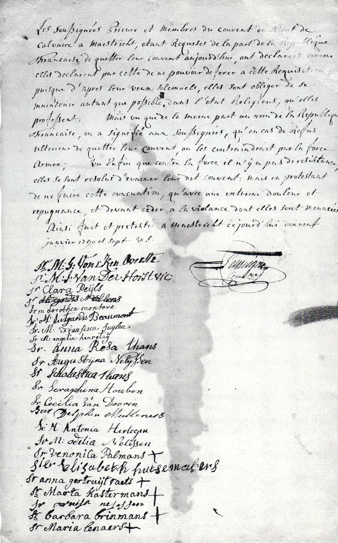 A letter of protest signed by all the sisters of the Convent of Mount Calvary in Maastricht, Netherlands, in 1797. The letter is directed against the French revolutionary government's decision to dissolve the monastery.